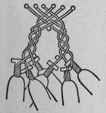 Fig. 34.--Diagram showing six Bobbins in use. Illustration from 1911 Encyclopædia Britannica, article Lace.